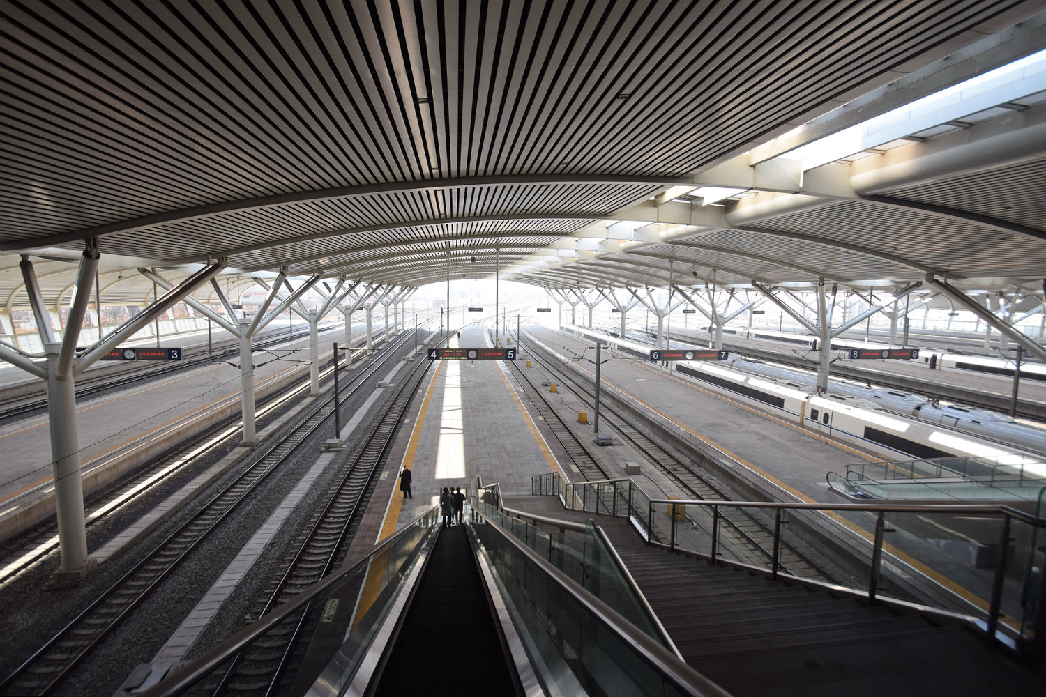 Platforms of Dalian Bei (North) Railway Station, view towards Dalian Railway Station.